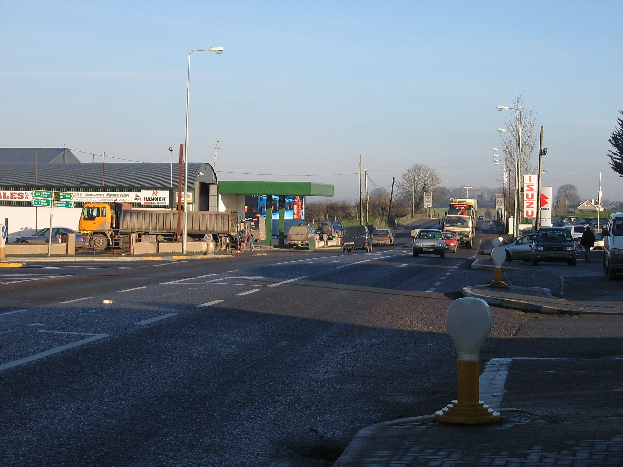 Junction on the N8 with the N62 at Horse and Jockey (Sarah777 03:02, 27 December 2006 (UTC))